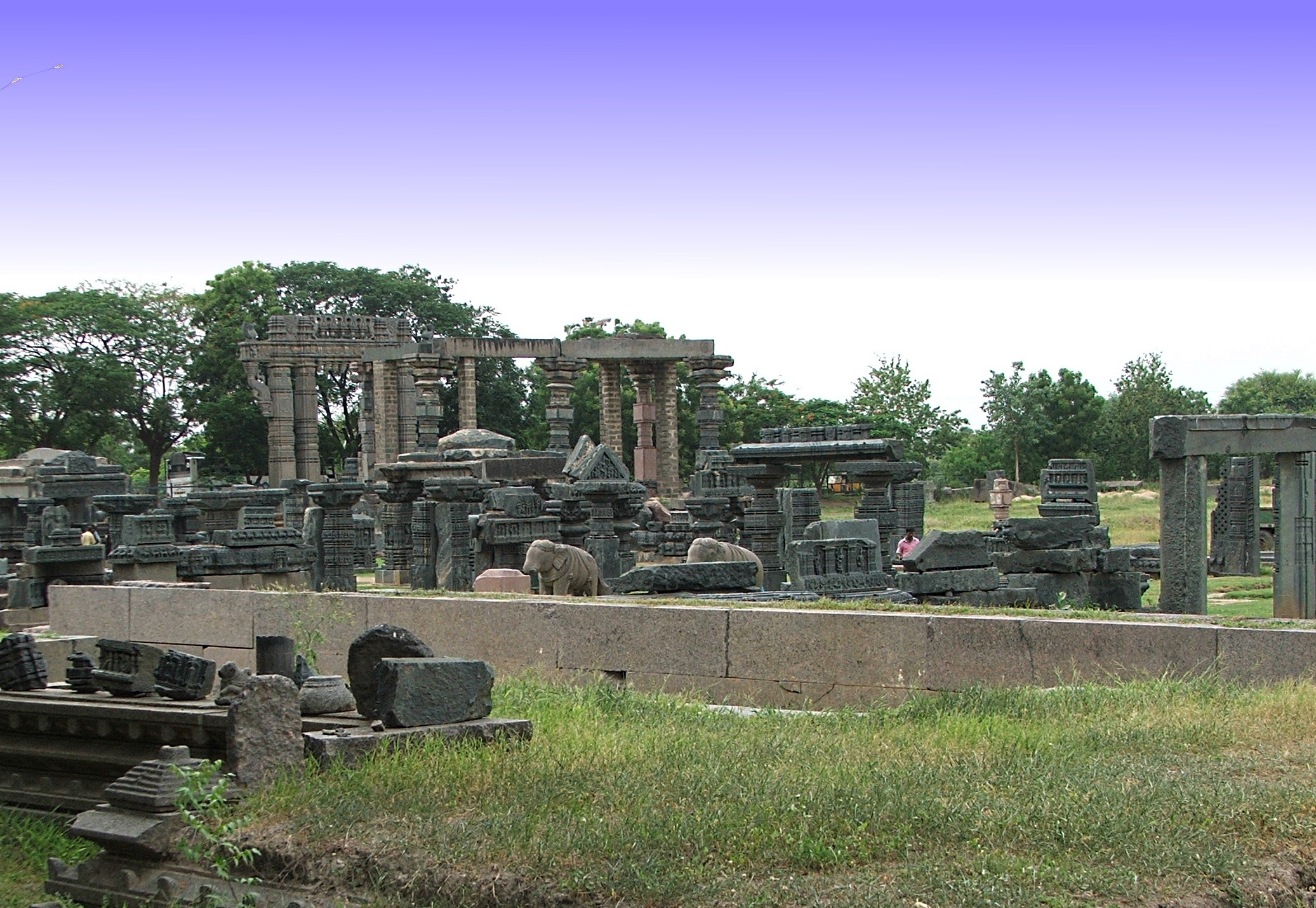 View of Warangal Fort Ruins